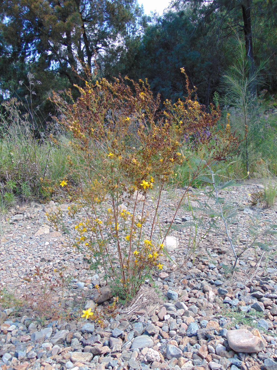 At the junction of Cotter River with Paddy's River, Australian Capital Territory